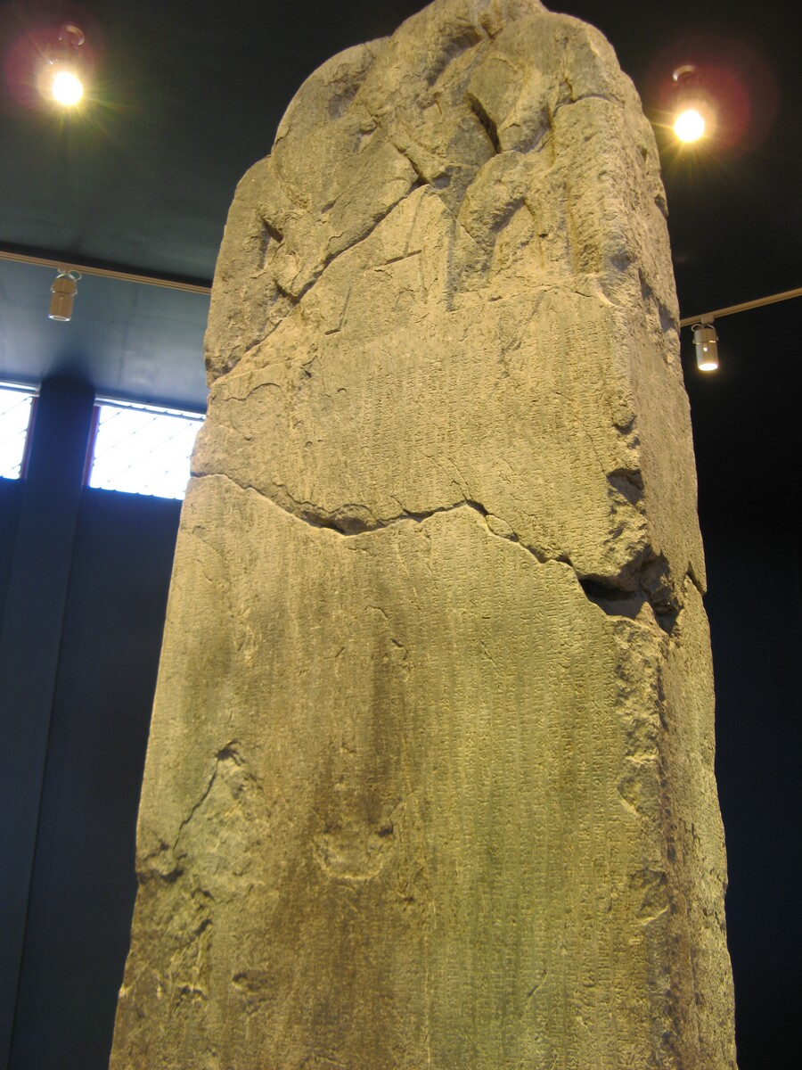 Monument to Bilge Khagan, Orkhon valley, Mongolia